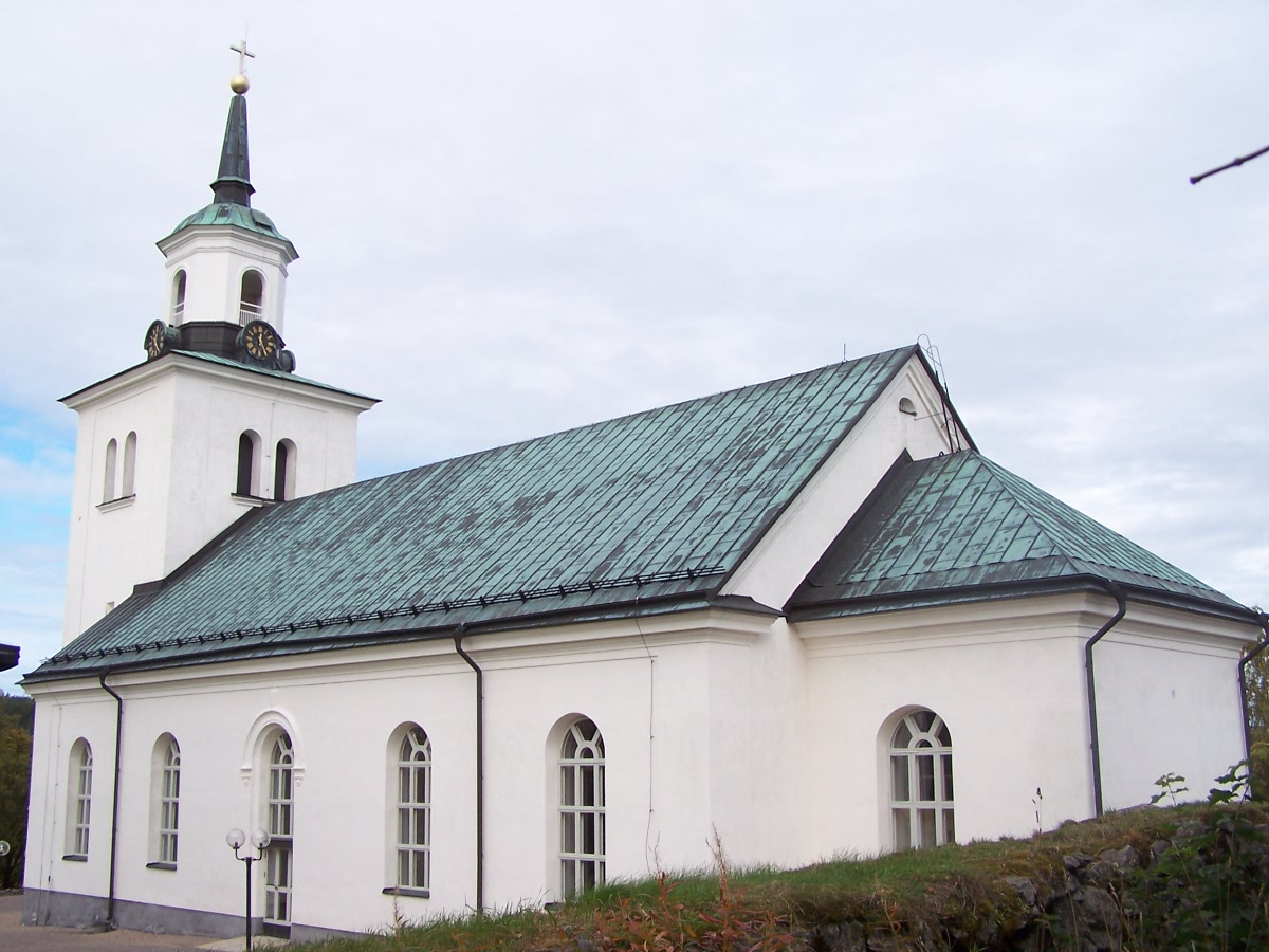 Skön church, Sundsvall, Sweden